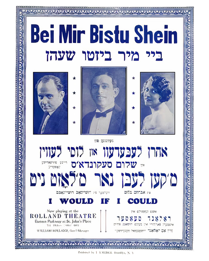 Bei Mir Bist Du Schoen poster